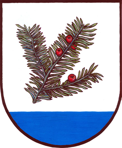 Coat of amrs of Nalžovice , District Příbram, Czech Republic